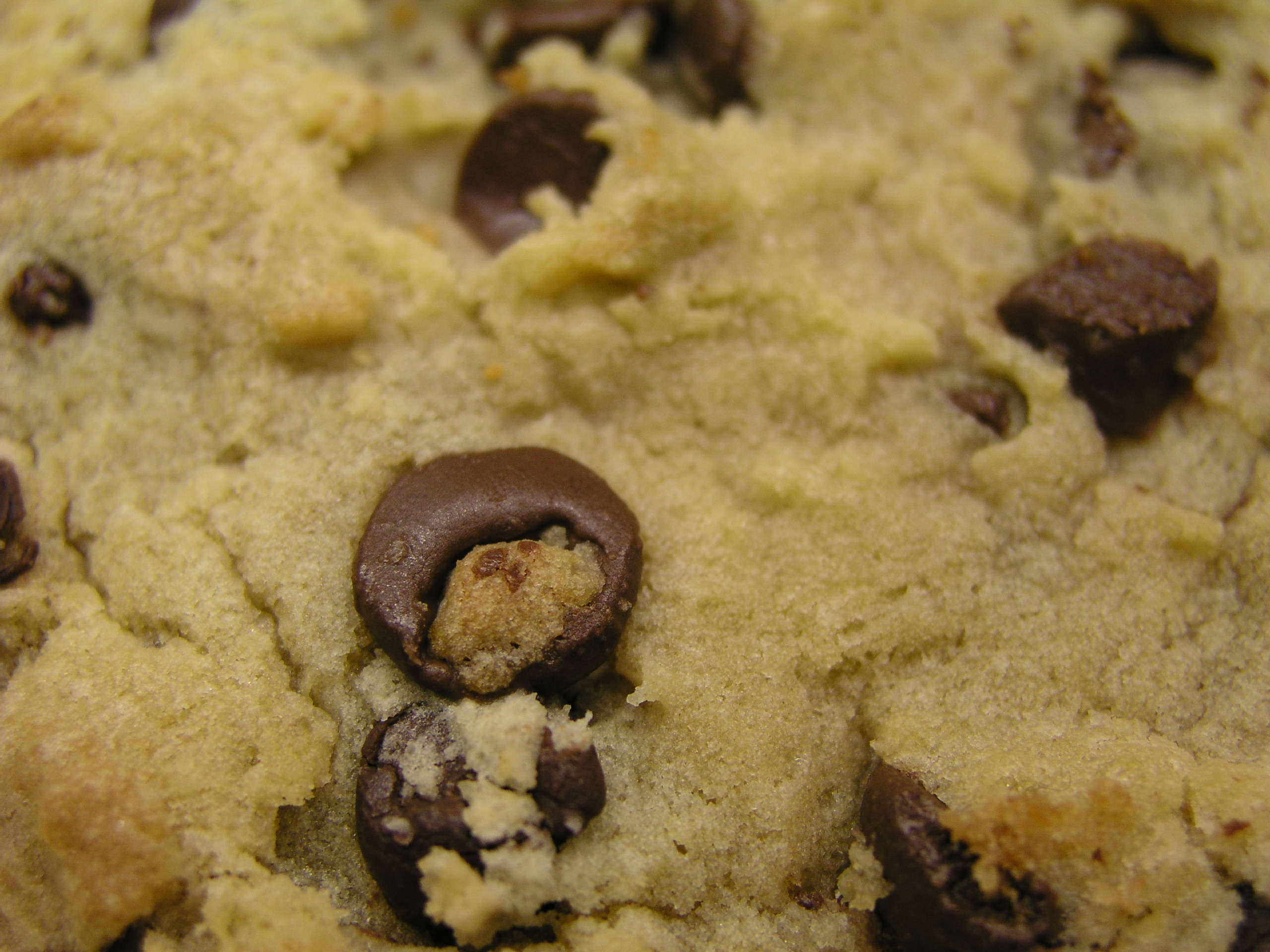 Monday is the day the agency I work for makes good chocolate chip cookies. The rest of the time it's hit or miss on over cooking them.